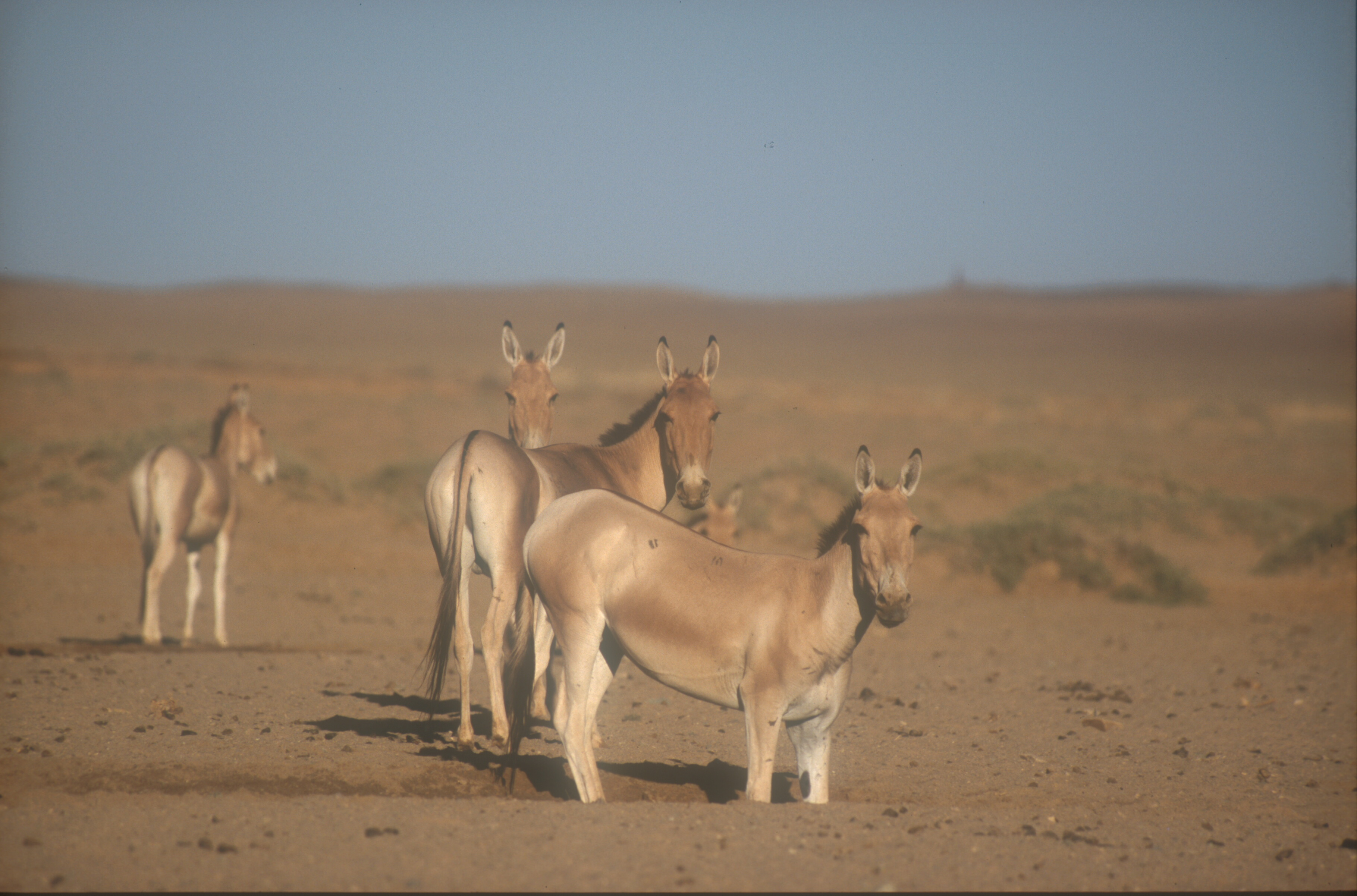 Petra Kaczensky